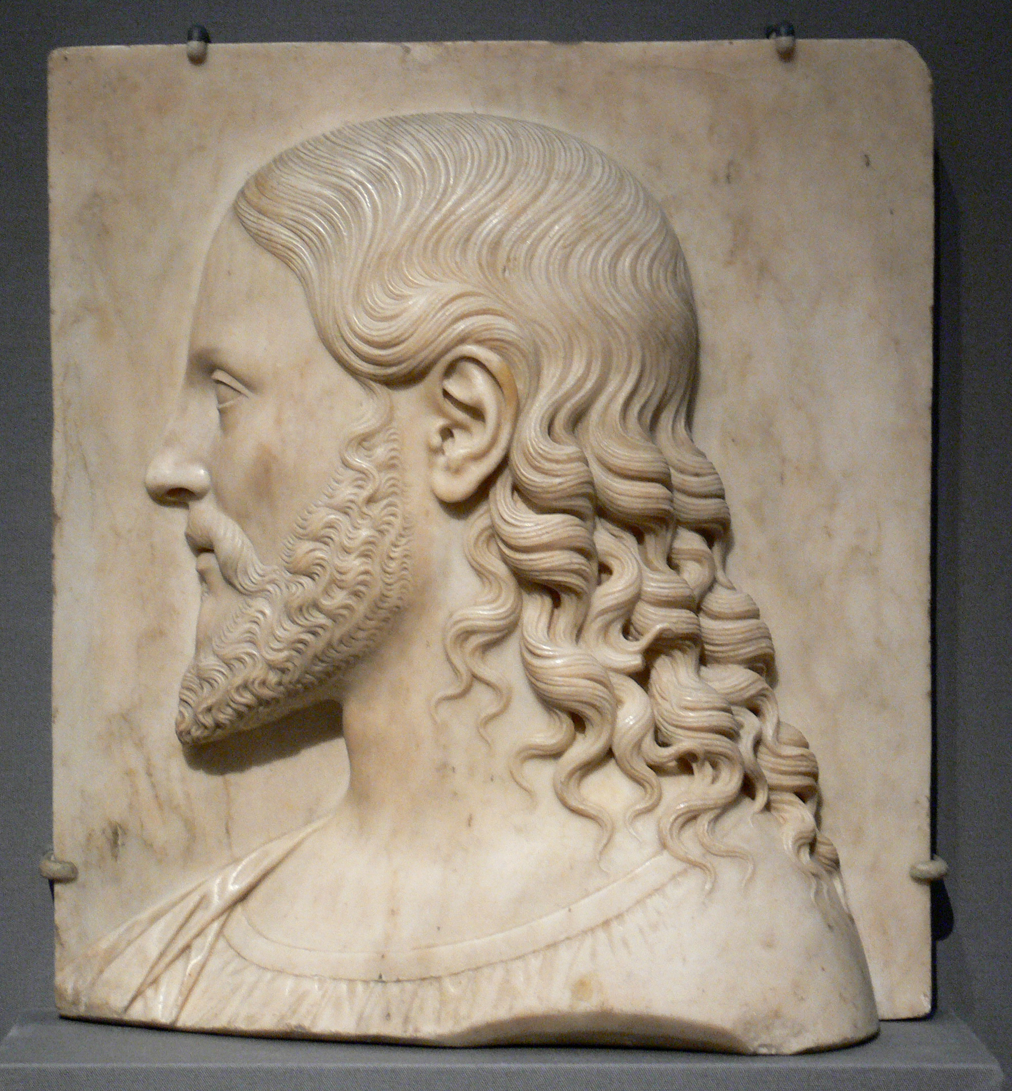 Christ the Redeemer (attributed to Tullio Lombardo), c. 1500–1520 ; White marble relief 33.5 x 31 x 9 cm Kimbell Art Museum Fort Worth, Texas; acquired in 2005; AP 2005.04